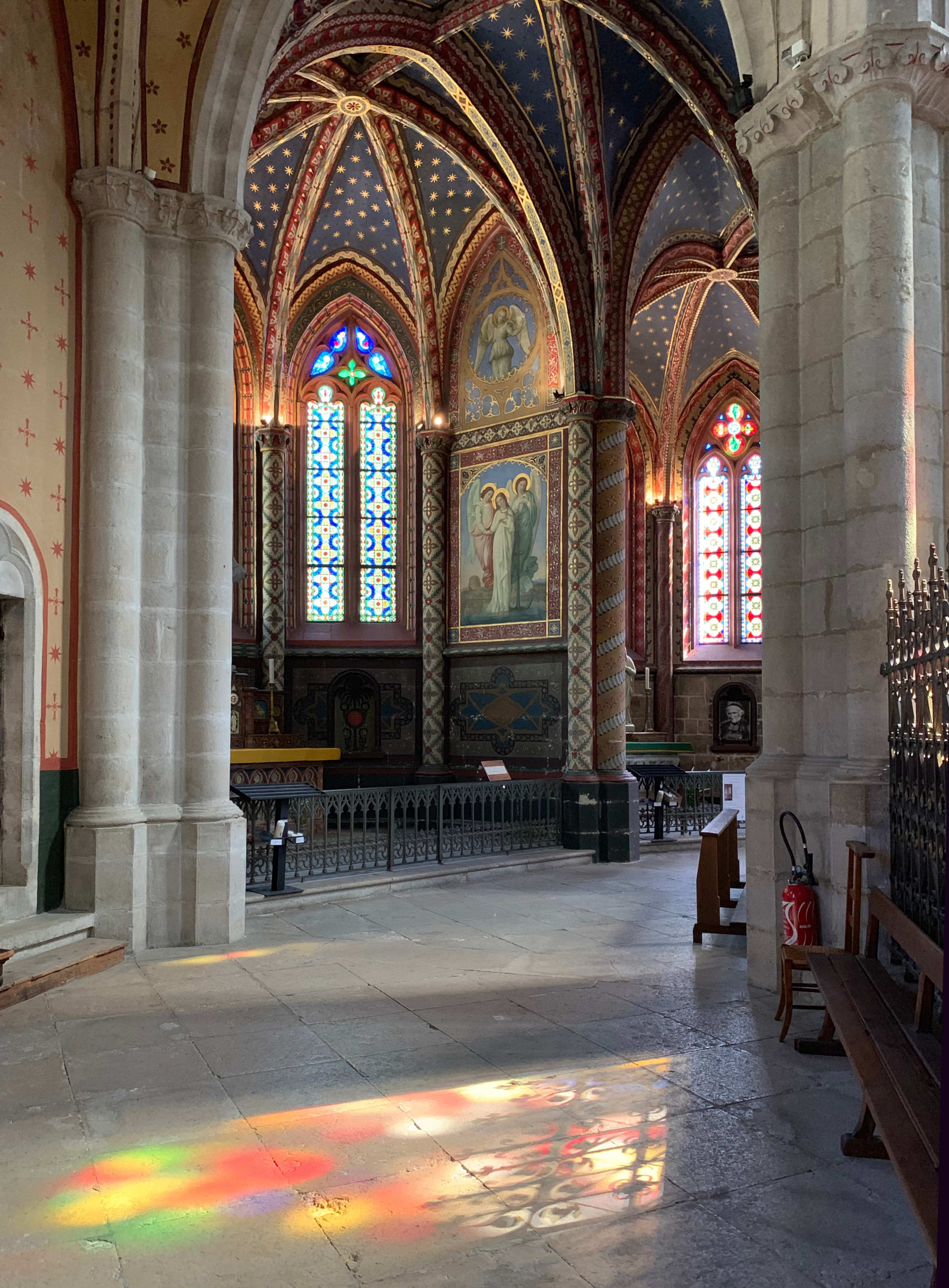 Interior of cathédrale Saint-Jean de Belley.